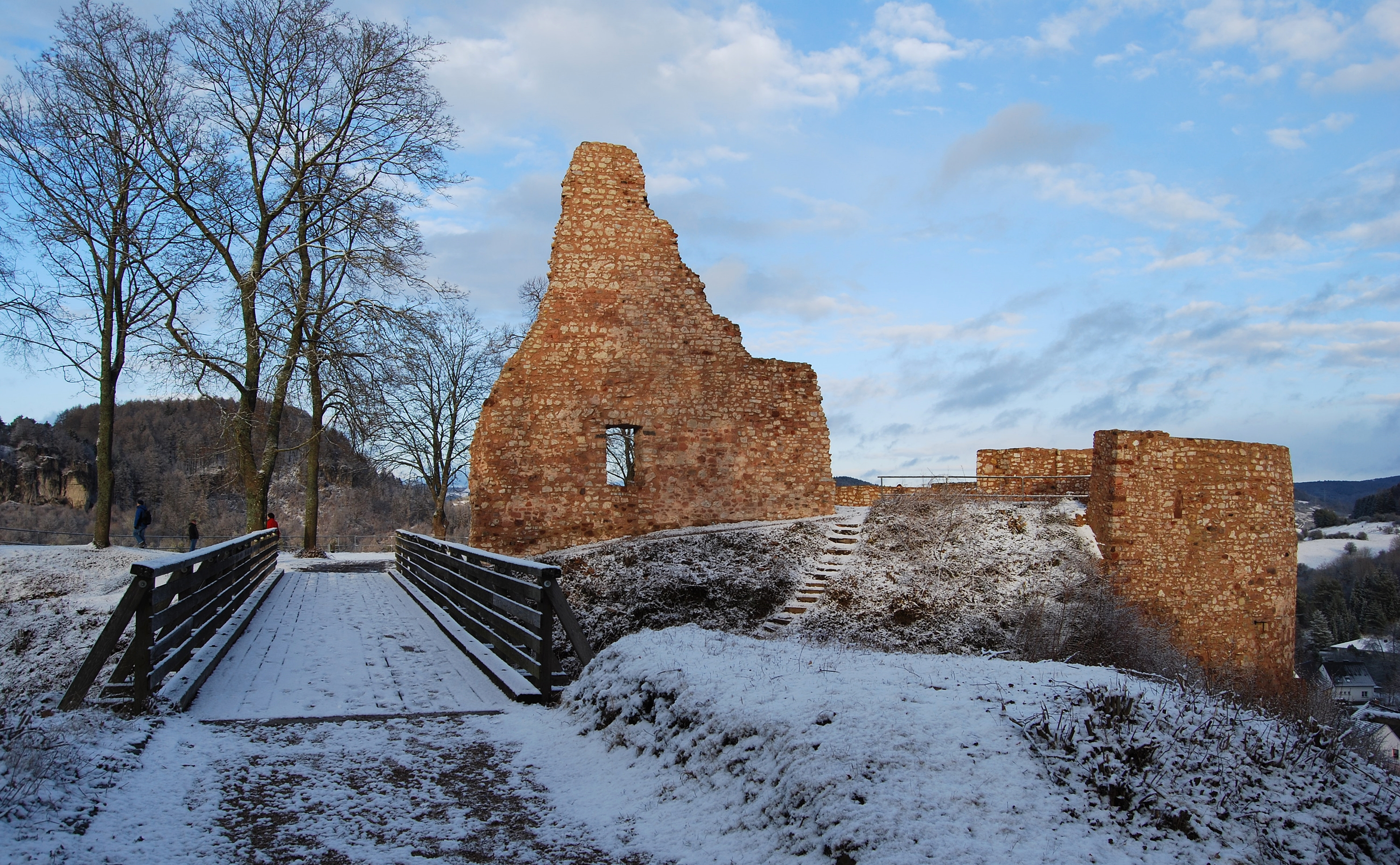 Wall of Gerolstein castle, Rhineland-Palatinate.